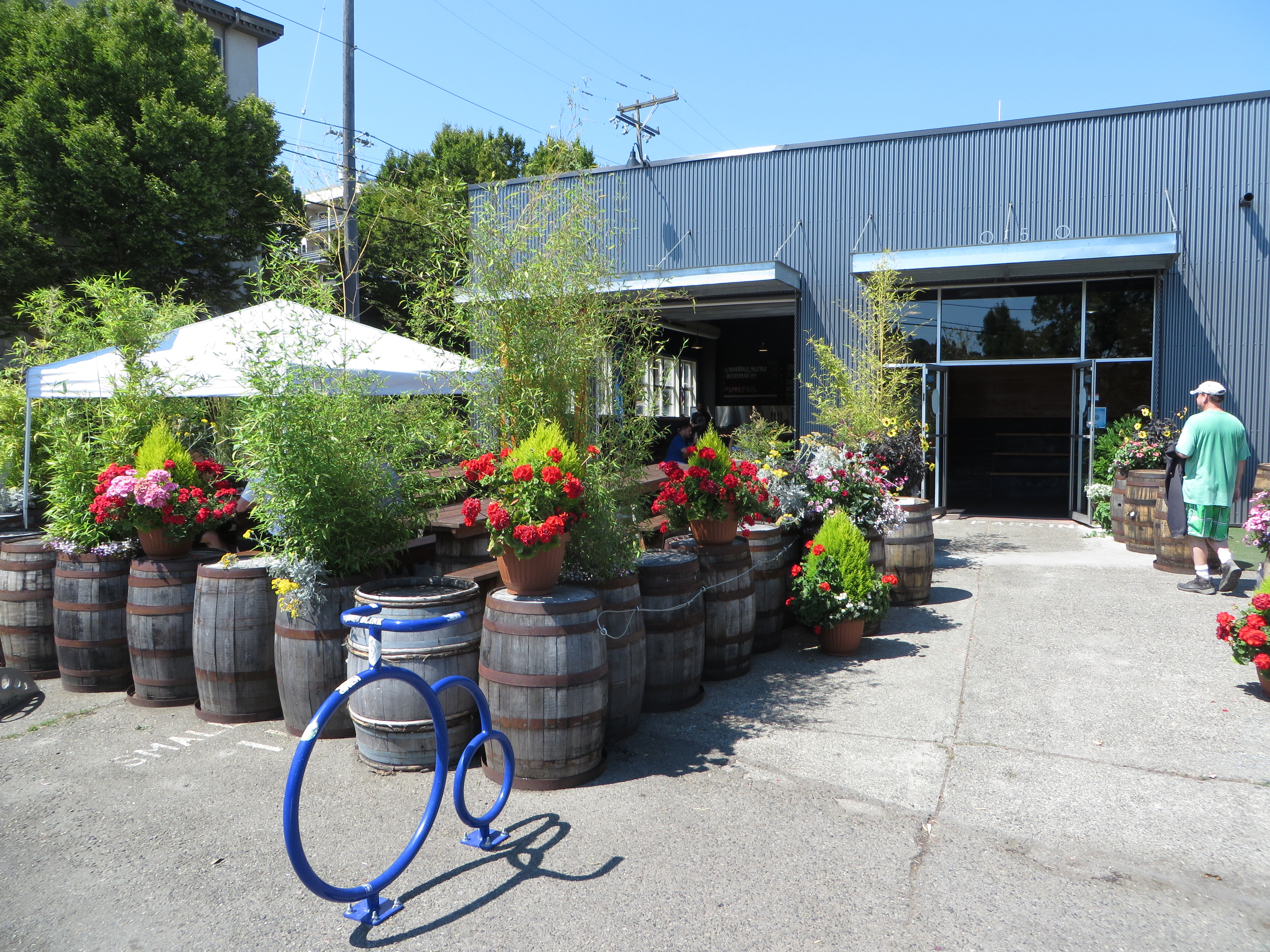 The Urban Beer Garden outside the entrance to Fremont Brewing Company, in the Fremont neighborhood of Seattle, on a sunny day in July 2014.